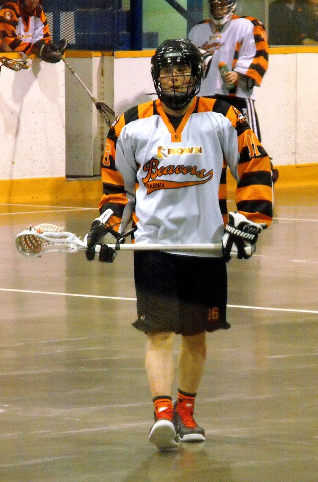 These images of Ontario Senior B Lacrosse Action action during the 2014 season are taken by Devan Mighton.